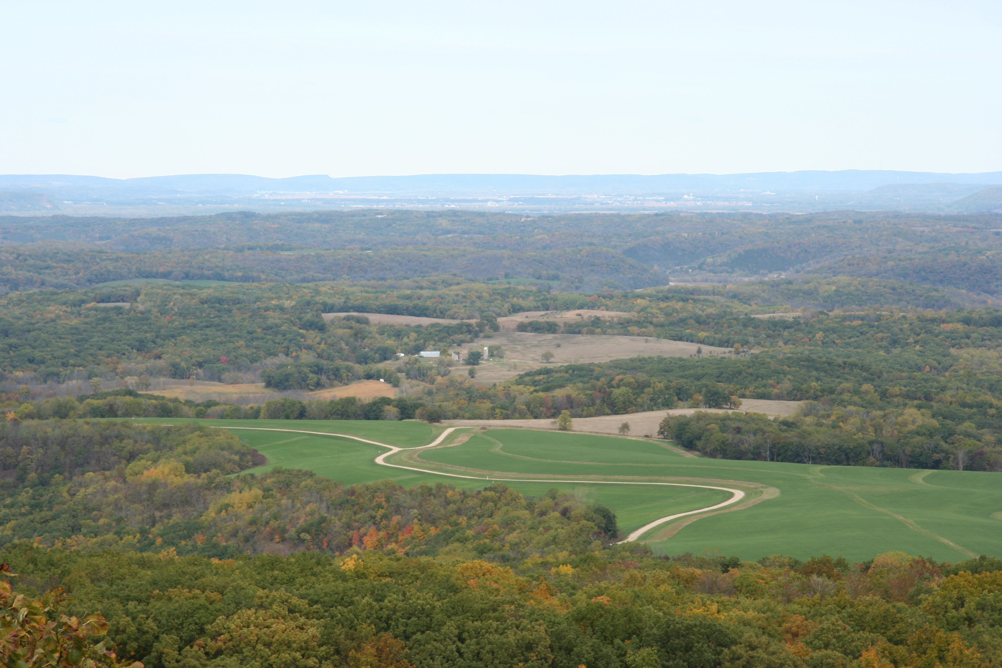 Hiking on a cold day at Blue Mound State Park